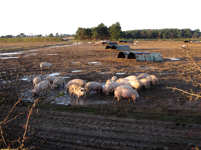 Outdoor reared pigs Having just been fed. South of Worlington.